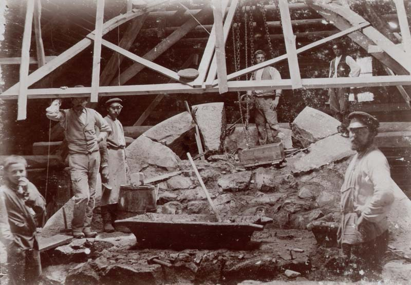 Construction works on a railway bridge across the Neman River close to Olita. The bridge was designed as part of the Transneman Railroad by Nikolai Belelyubsky and built by the K. Rudzki i S-ka company between 1898 and 1899. Blown up by the Russians in 1915, it has not been rebuilt since.